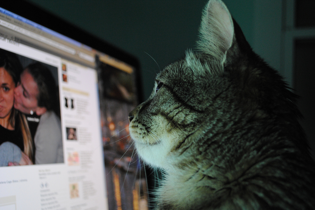 facebook engancha